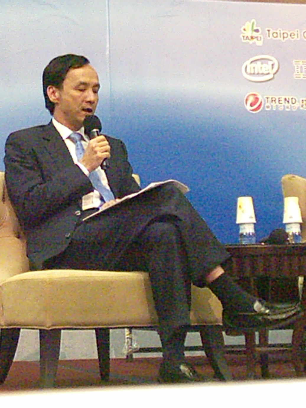 Eric Li-lun Chu, Taoyuan County Commissioner.